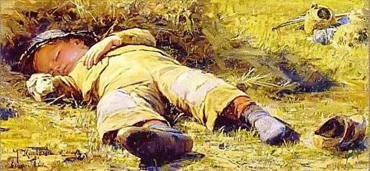 Sleeping Boy.